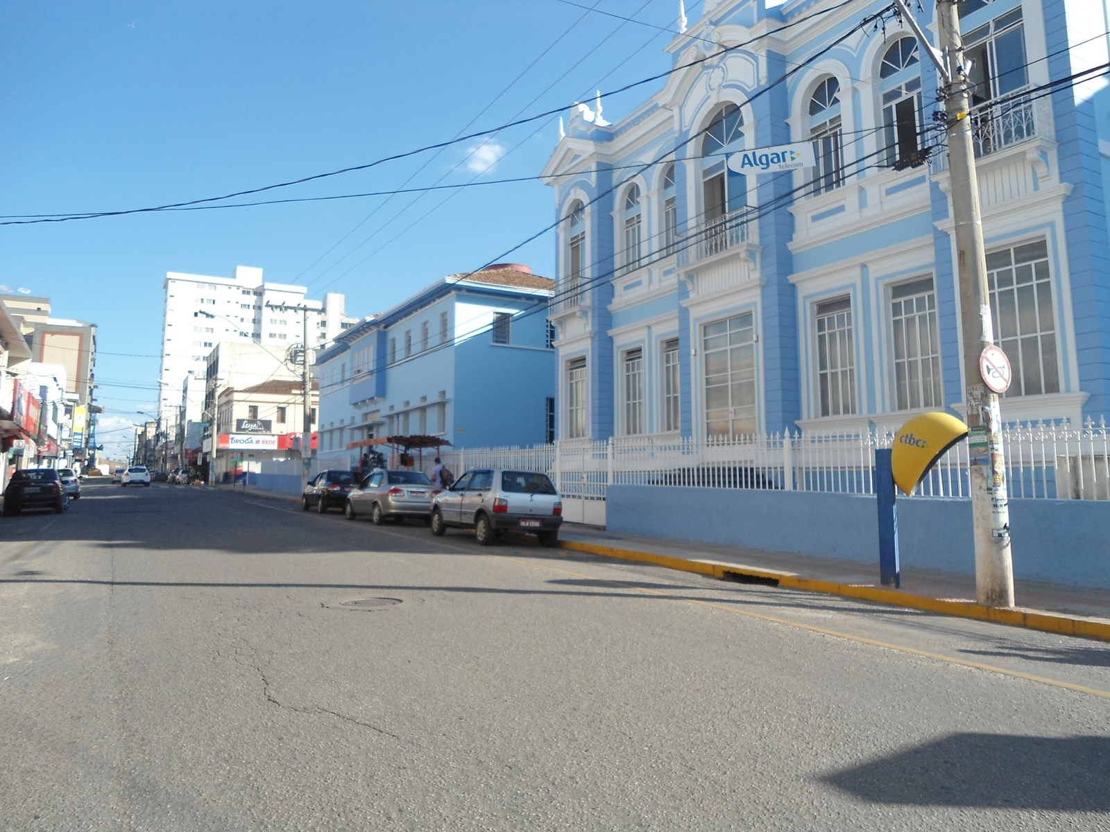 Front of the Nossa Senhora da Conceição Hospital, in Pará de Minas, Minas Gerais, Brazil.